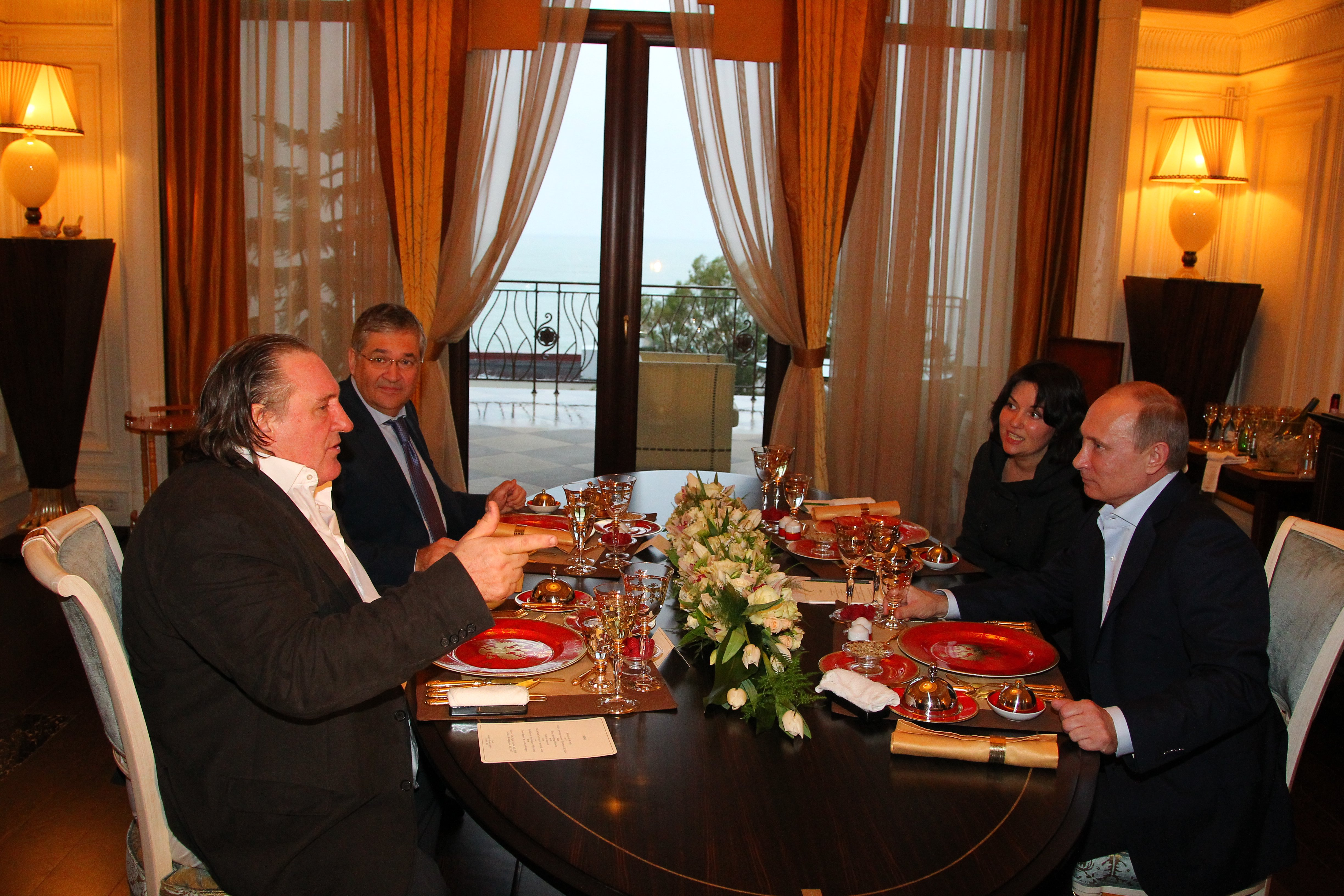 Gérard Depardieu and Vladimir Putin, Sochi, Russia, 2013-01-06.